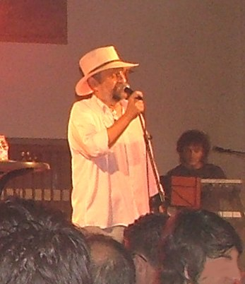 Tomeu Penya, singer from Mallorca in exhibition in Lloret de vista alegre, Mallorca, Spain.